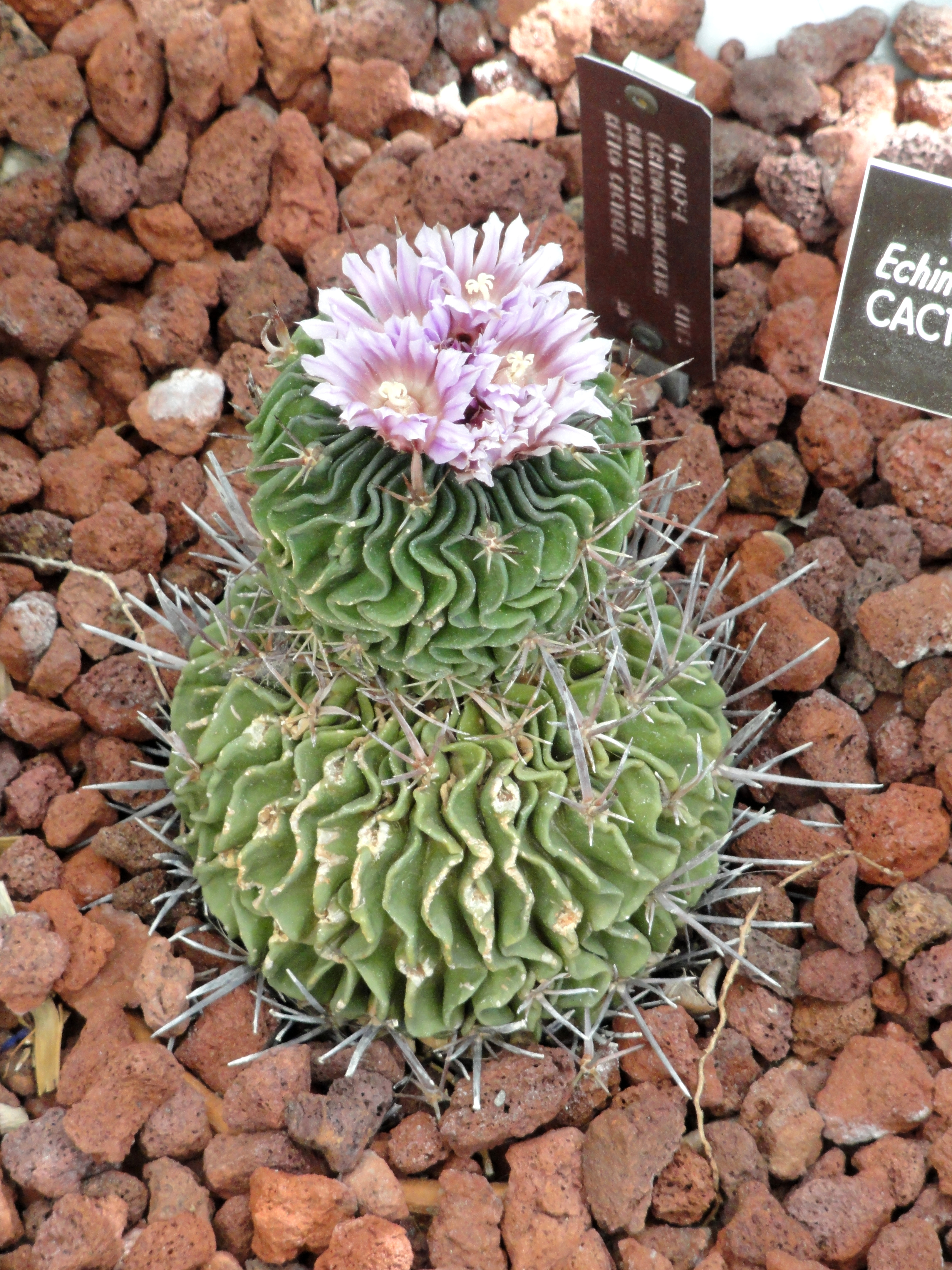 Botanical specimen in the United States Botanic Garden, Washington, DC, USA.